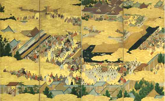 “Go-Yōzei Tennō Juraku-dai Gyōkō-zu”